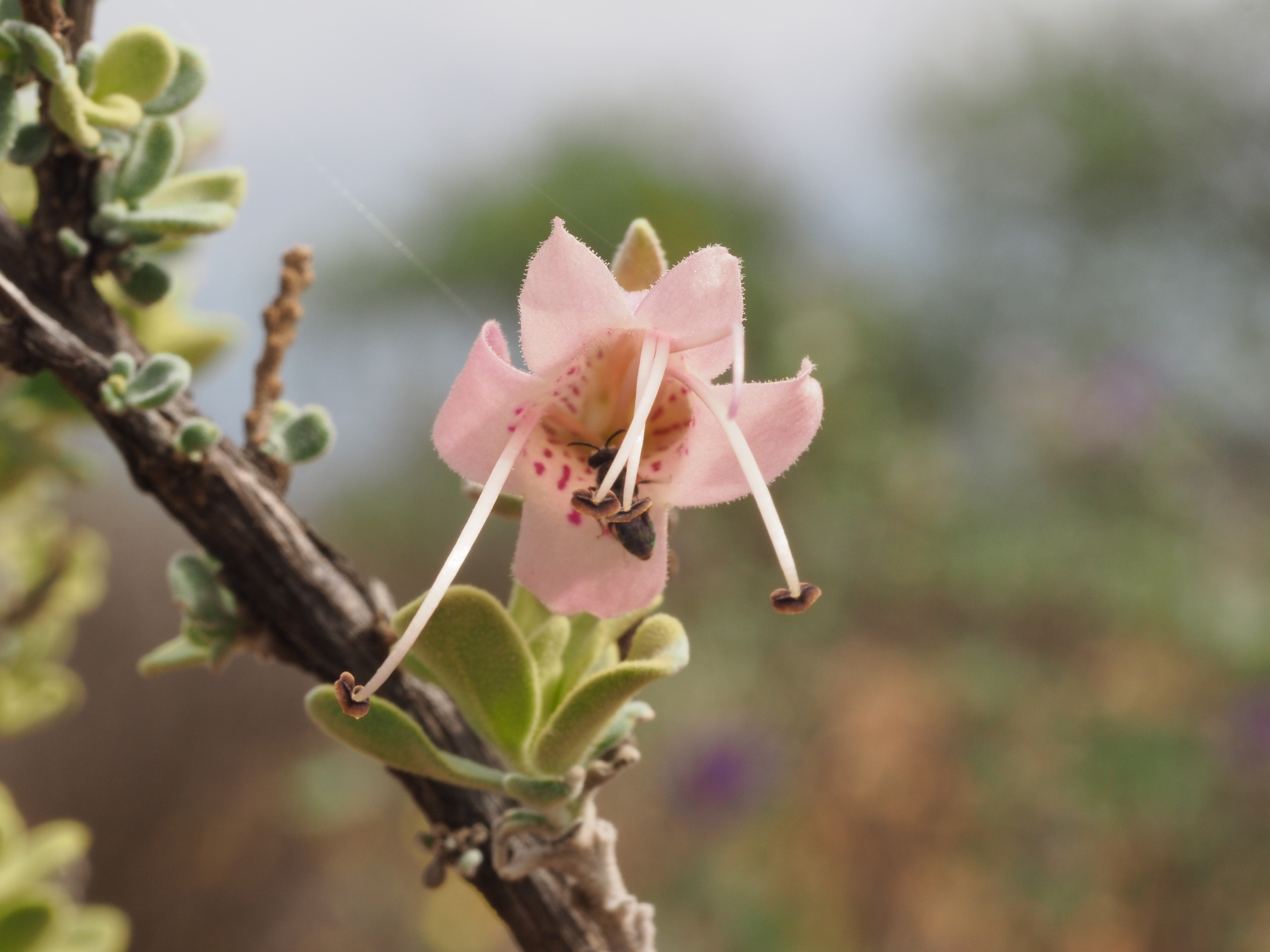 Comparison of Eremophila forrestii subspecies